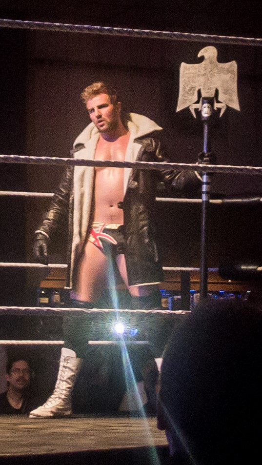 Nathan Cruz facing El Ligero for the Progress Title at Progress Wrestling Chapter 4.